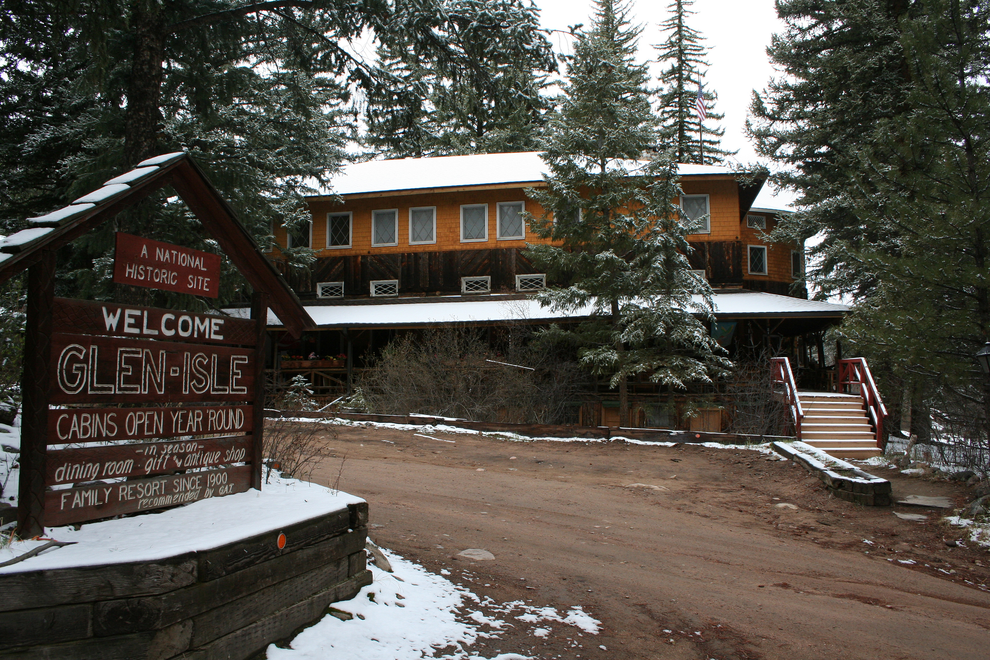 Glenisle, a resort located in Bailey, Colorado. It is listed on the National Register of Historic Places in Park County, Colorado. The name sometimes appears as Glen-Isle.